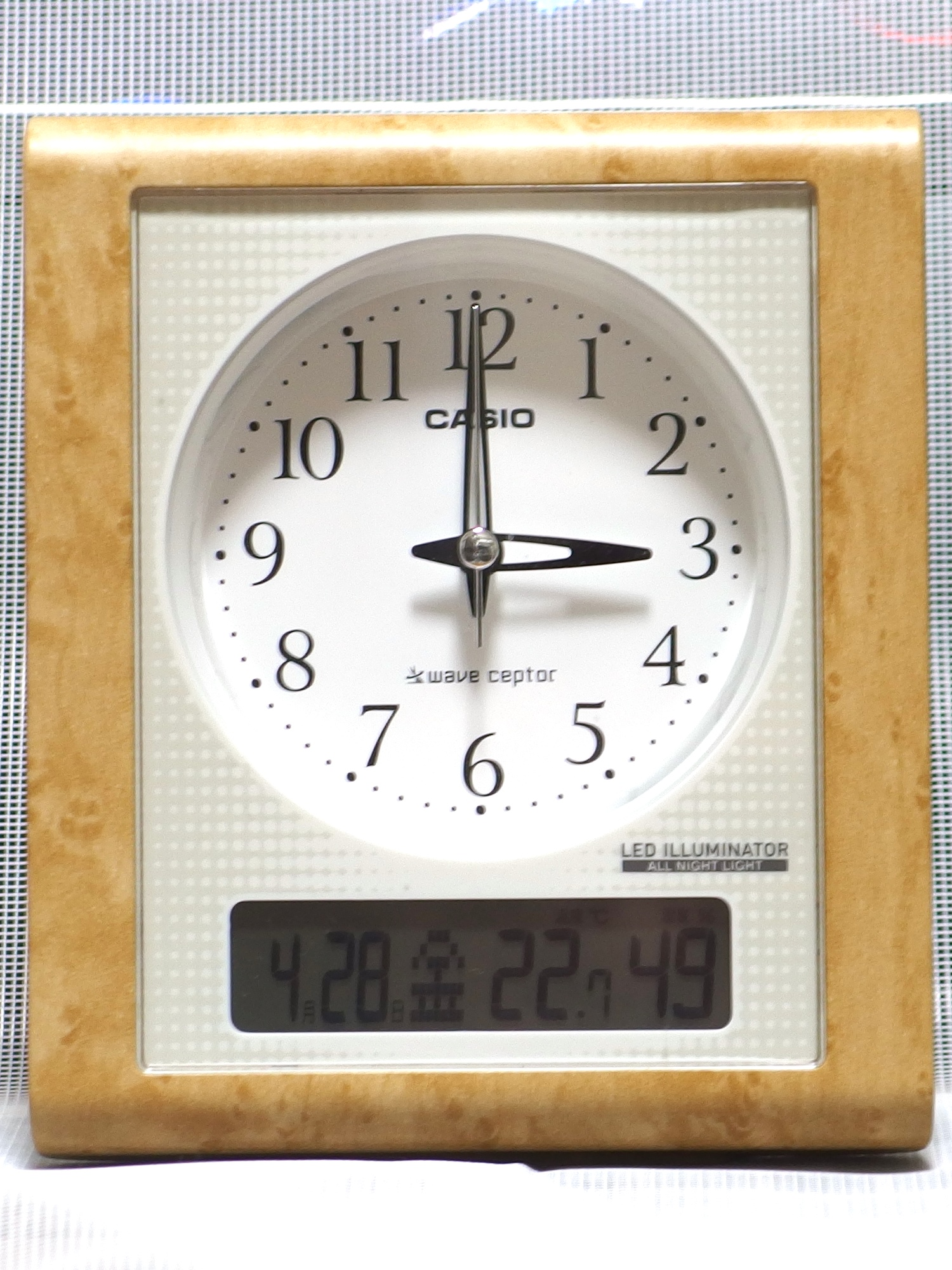 Analog radio clock